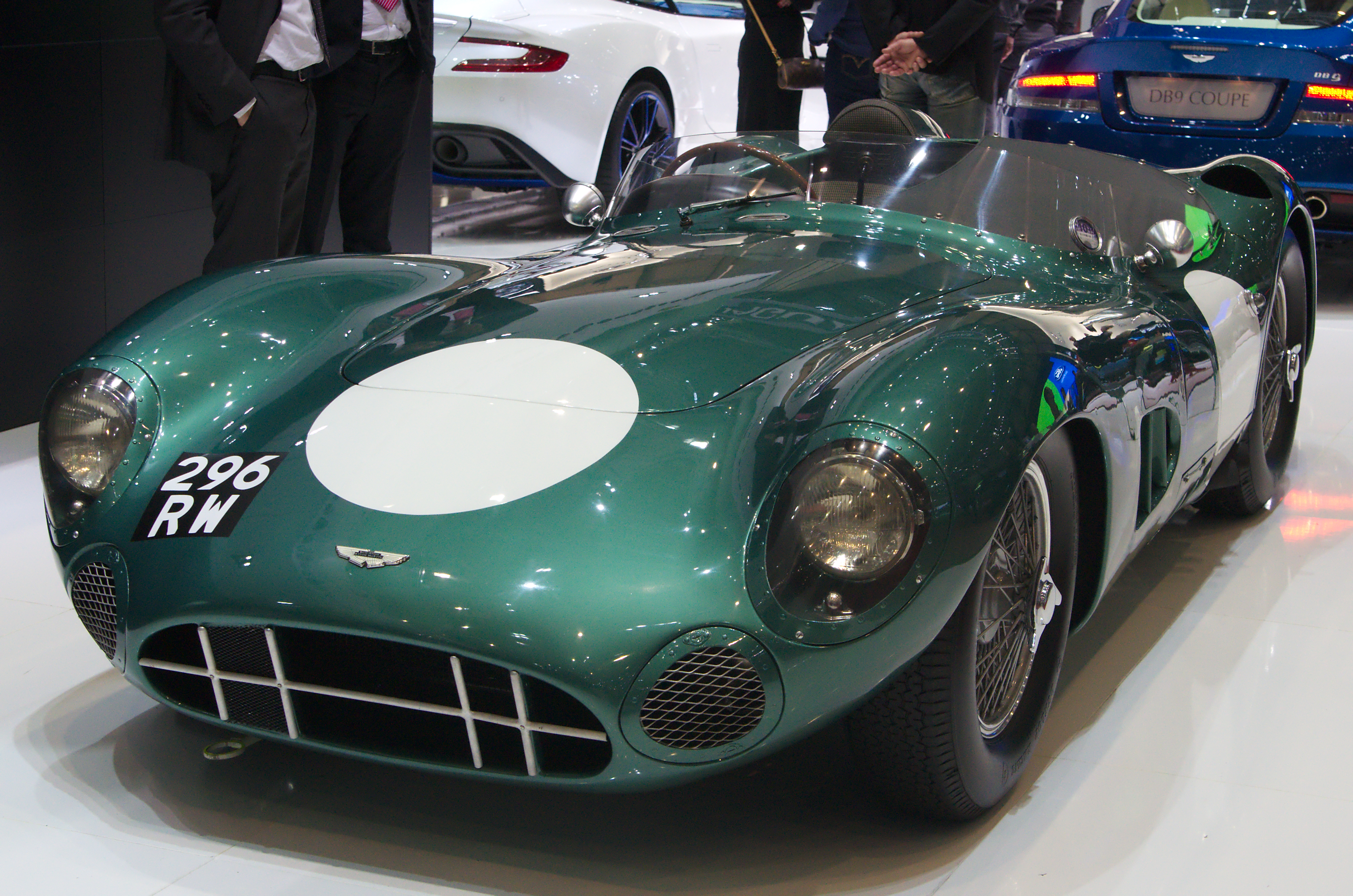 Aston Martin DBR1/1 with "296 RW" license at Geneva 2013. [1] [2]